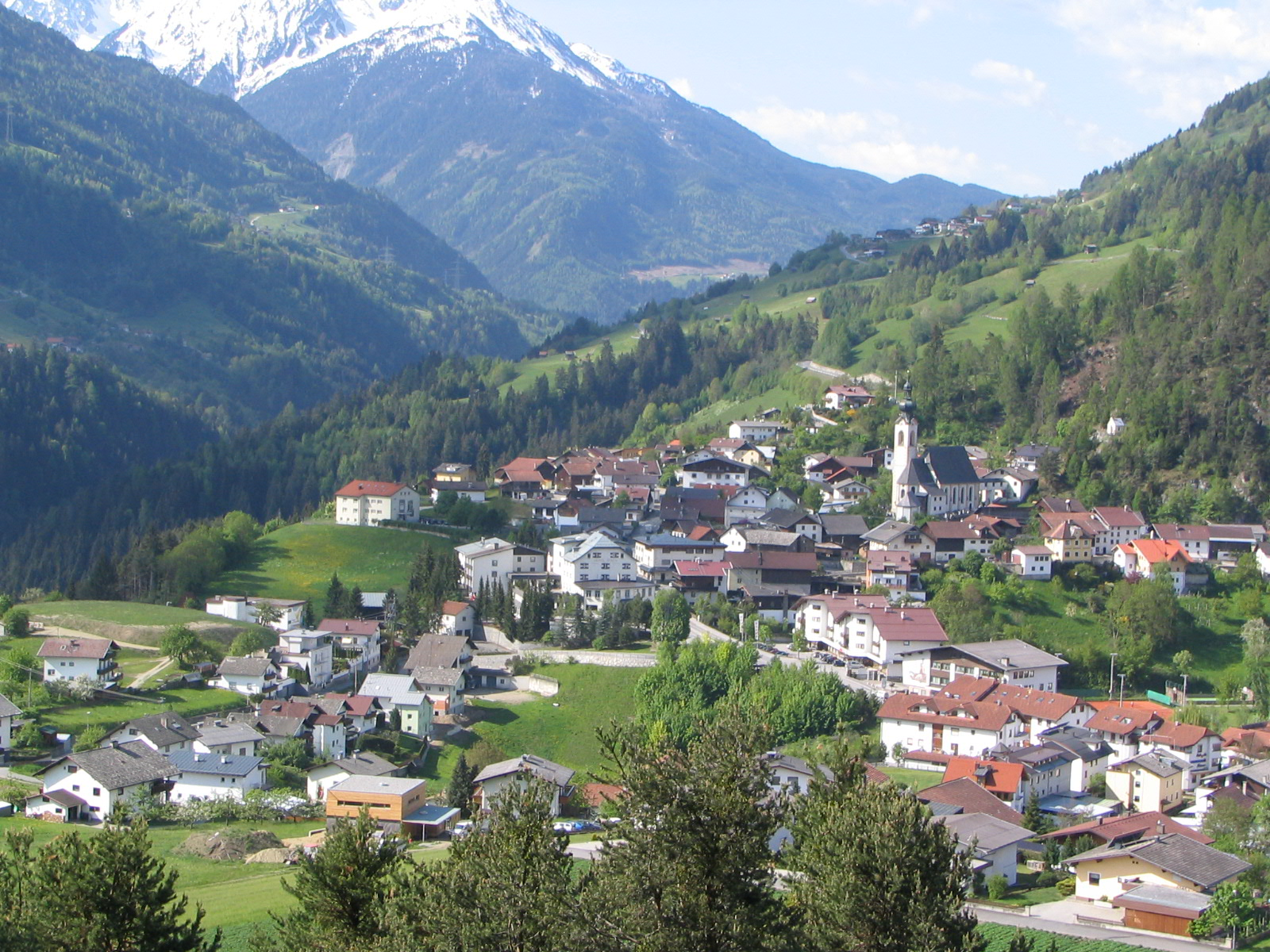 Arzl im Pitzal, Tyrol, Austria